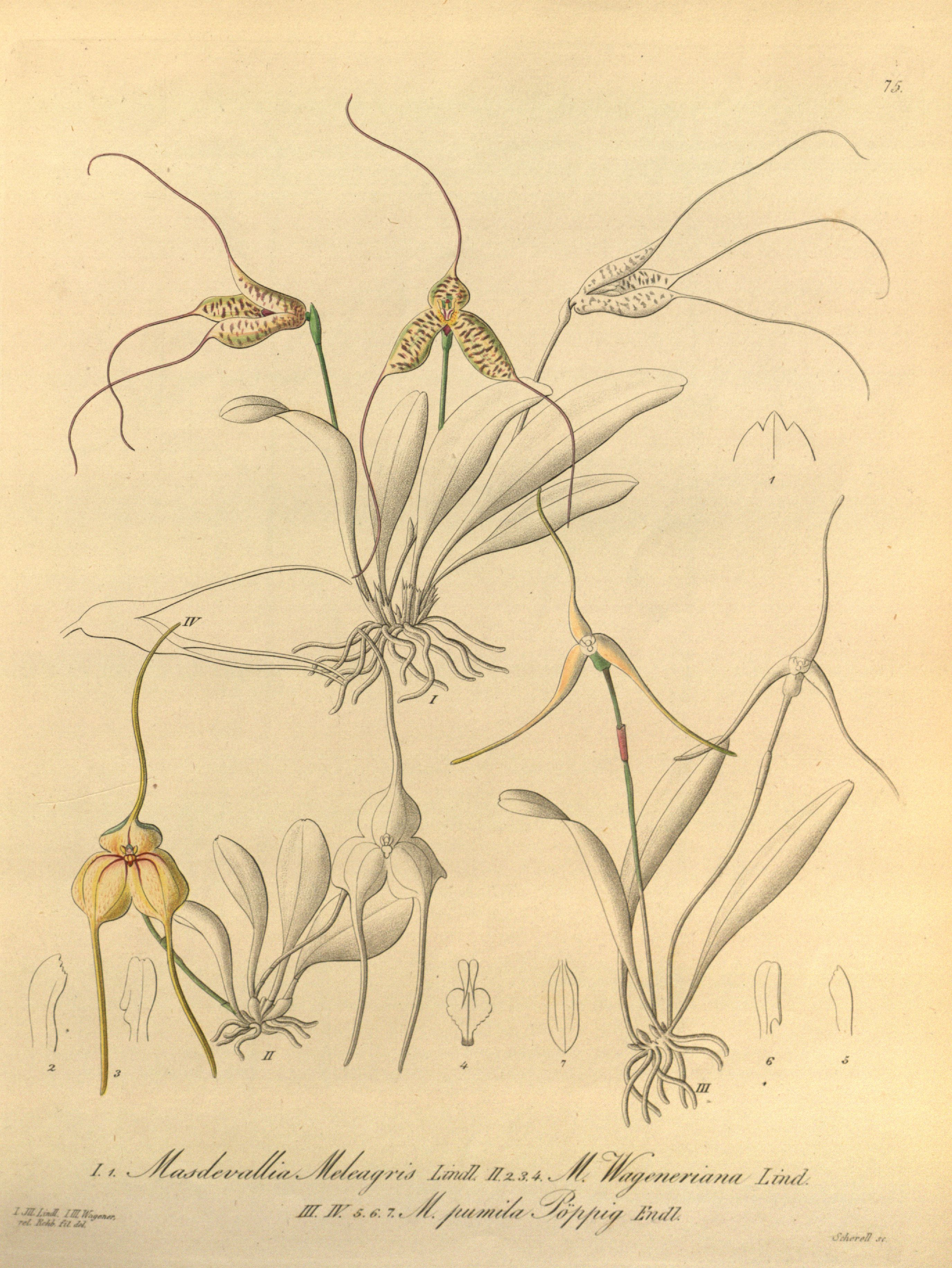 Illustration of I.Masdevallia meleagris II.Masdevallia wageneriana III, IV. Masdevallia pumila